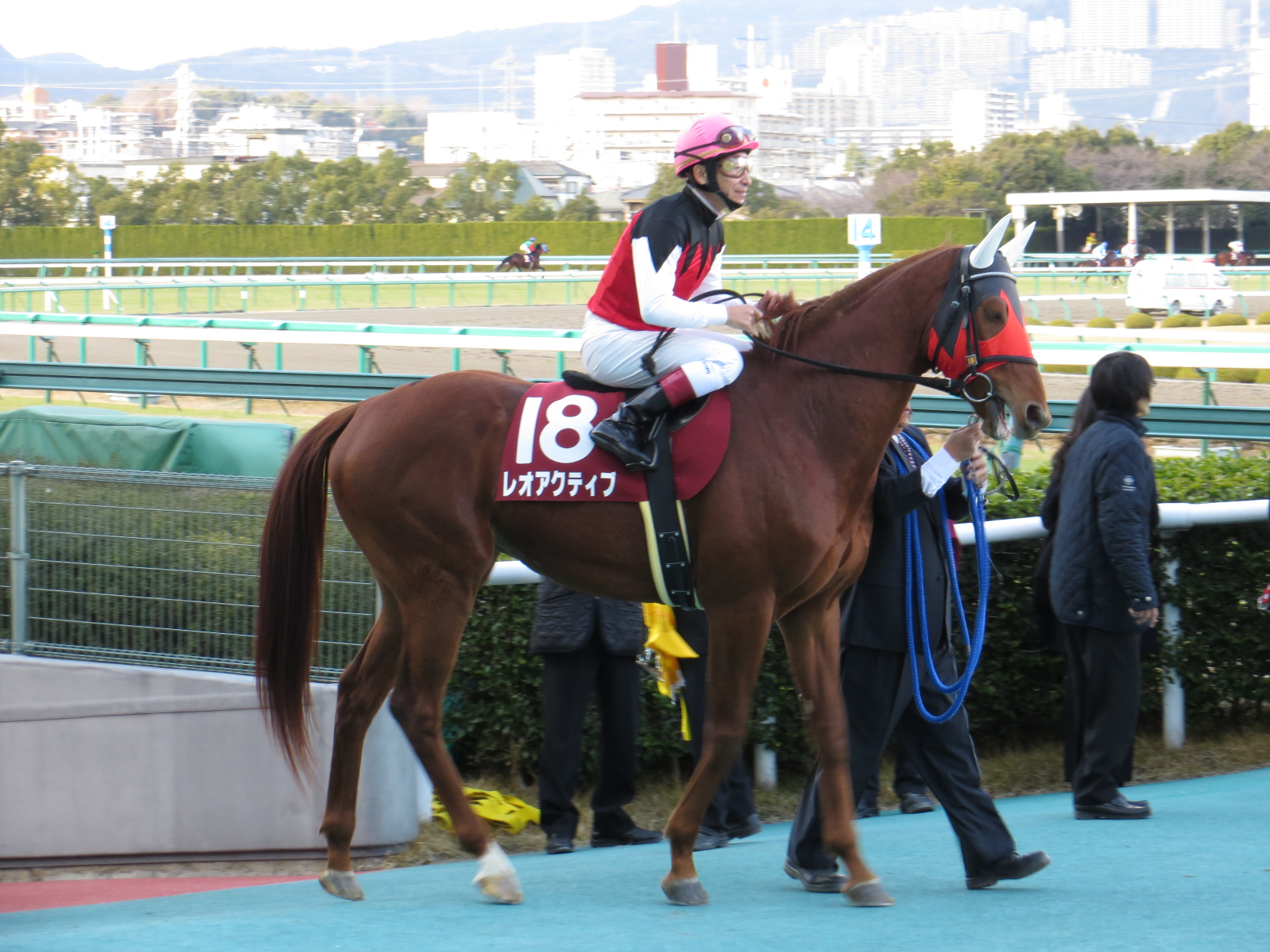 Leo Active (Japanese race horse).